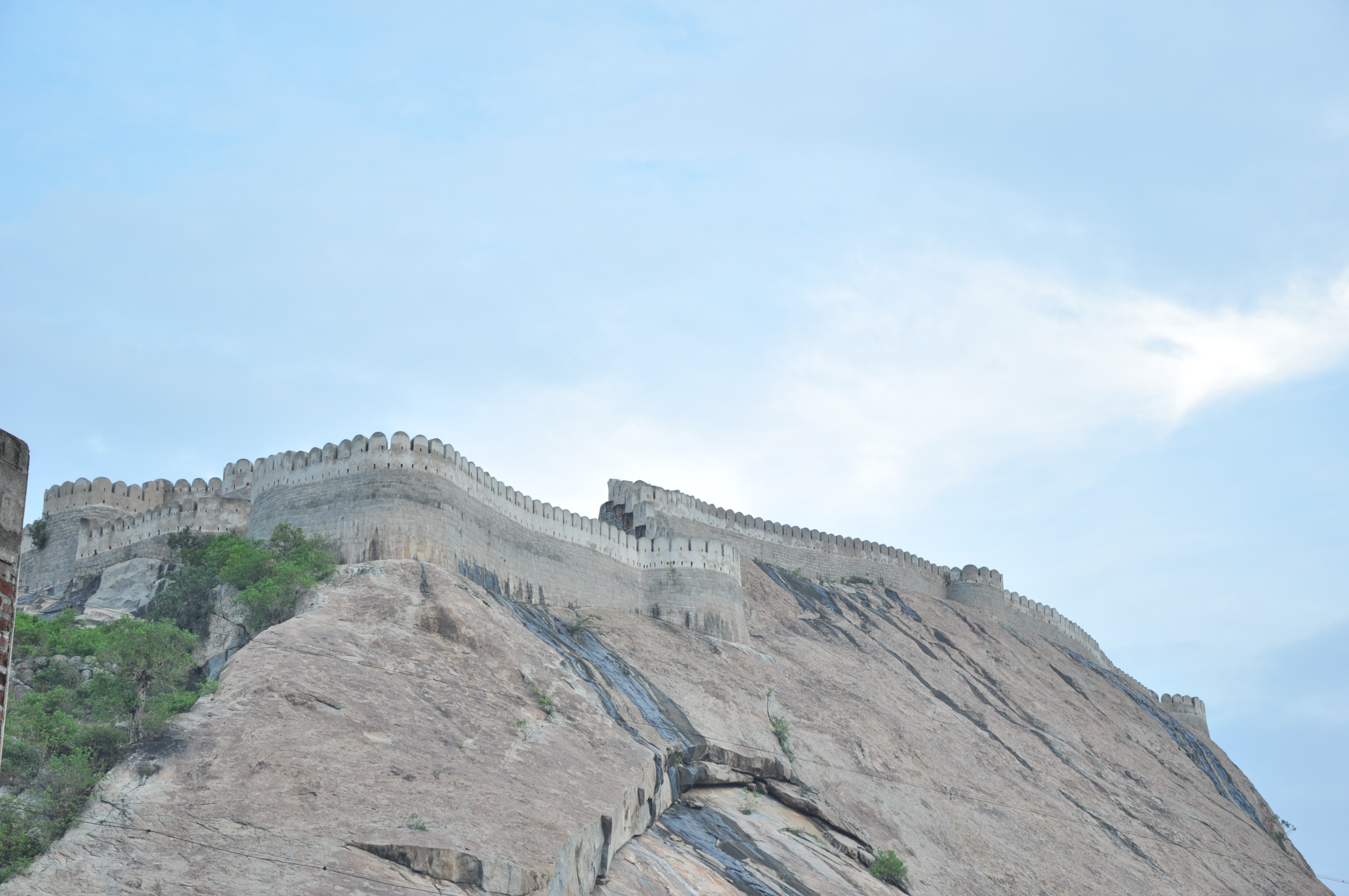 "Hill Fort of Namakkal". Location: Namakkal and district, Tamil Nadu, India.